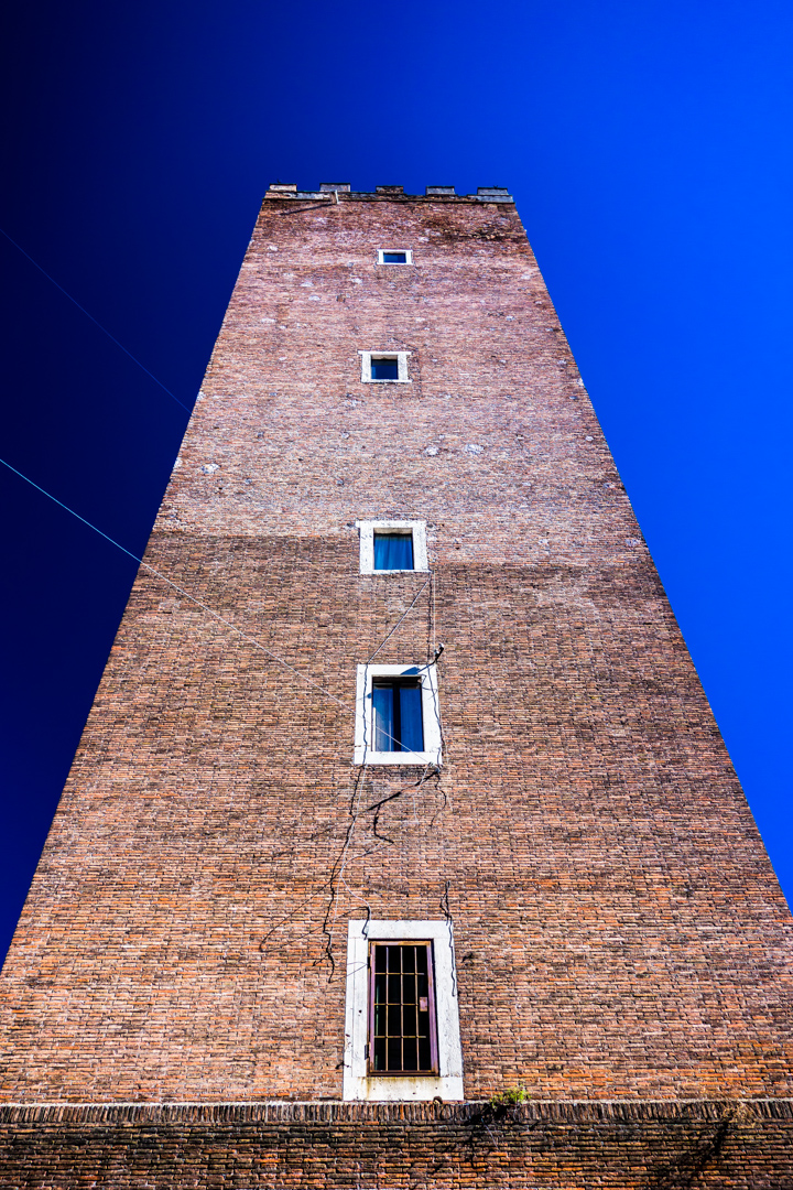 Capocci Tower in Rome